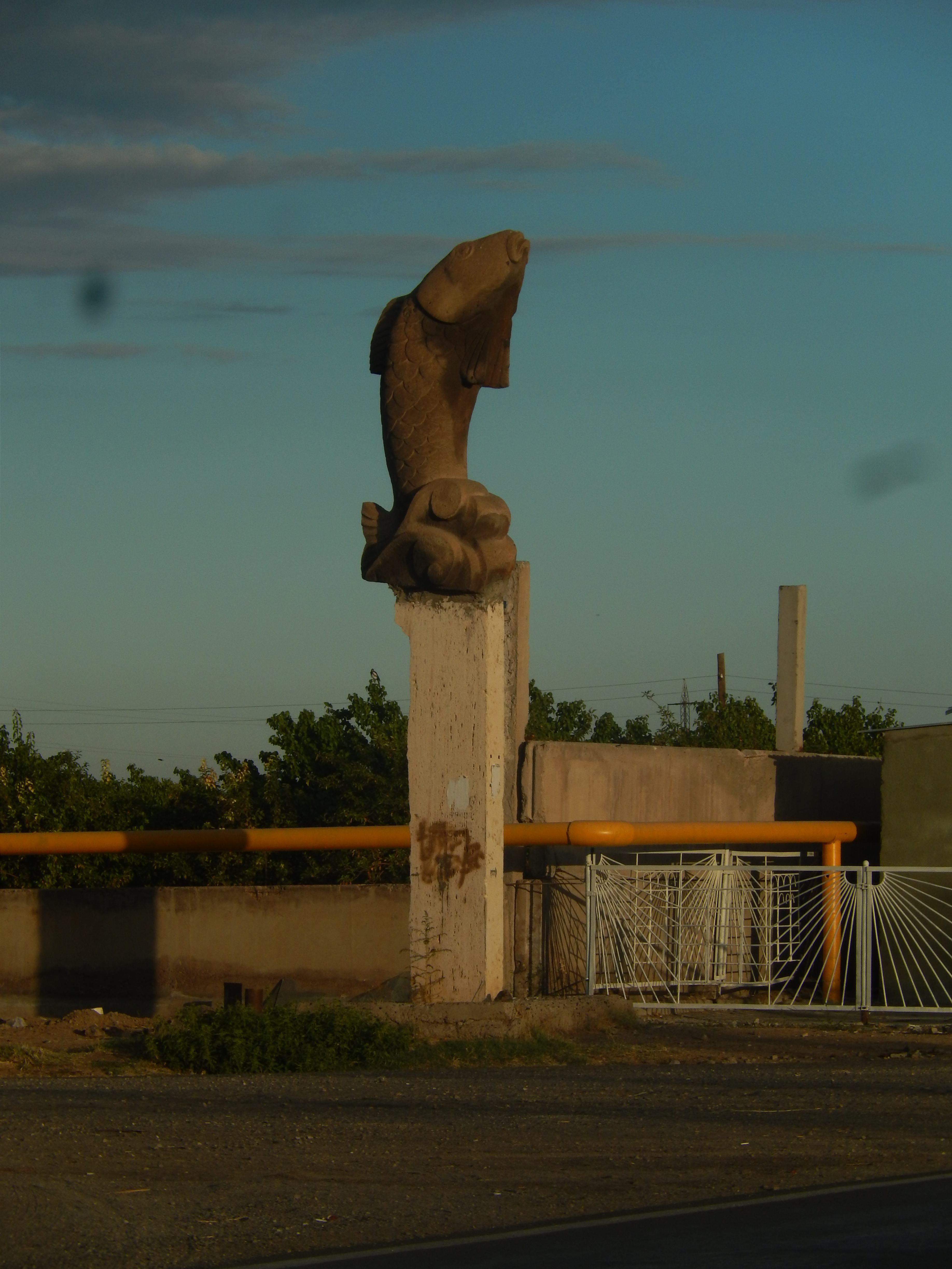 Fish sculpture in Armash village, Ararat Province